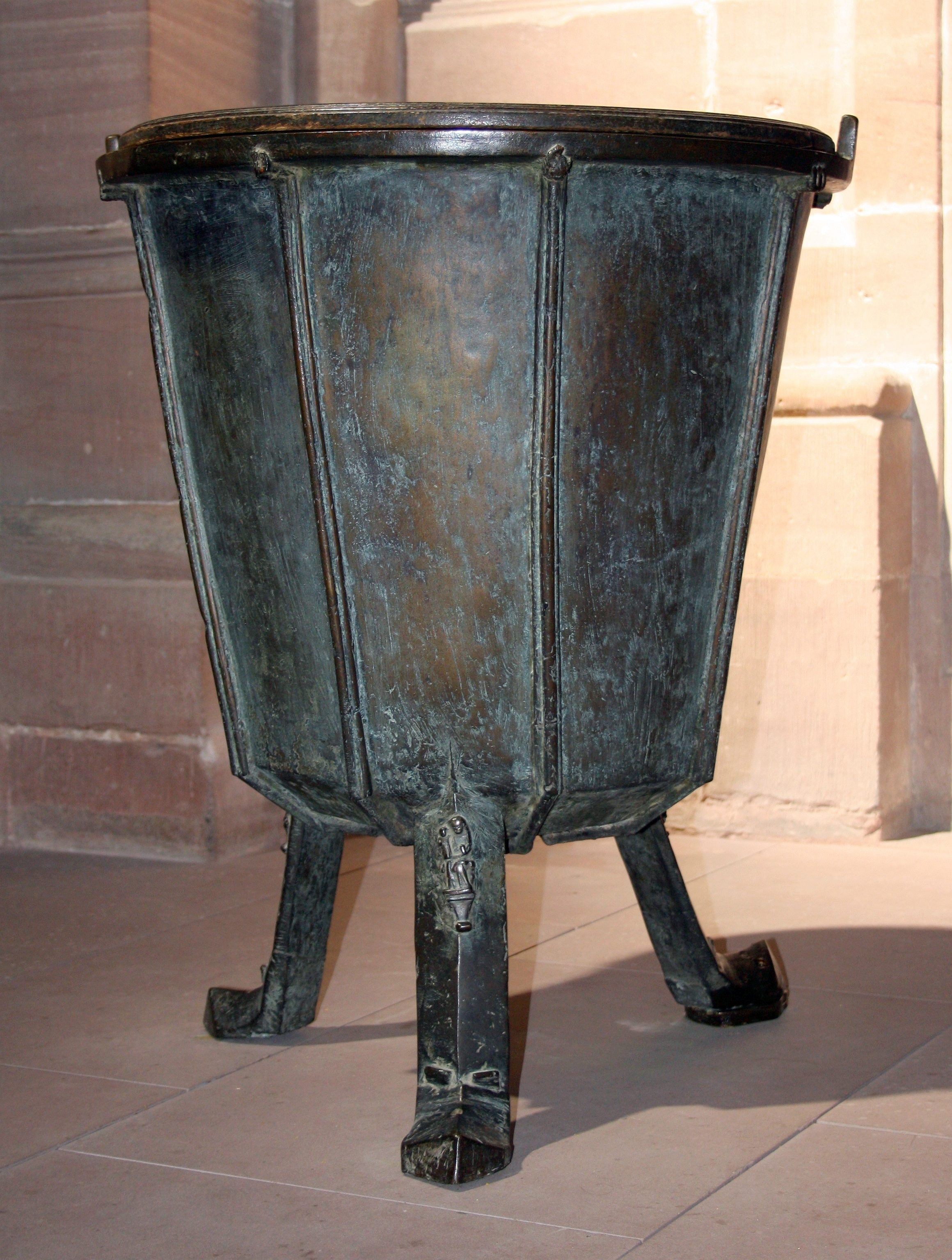 Bronze baptismal font of St Martin church in Heilbad Heiligenstadt, Thuringia, Germany